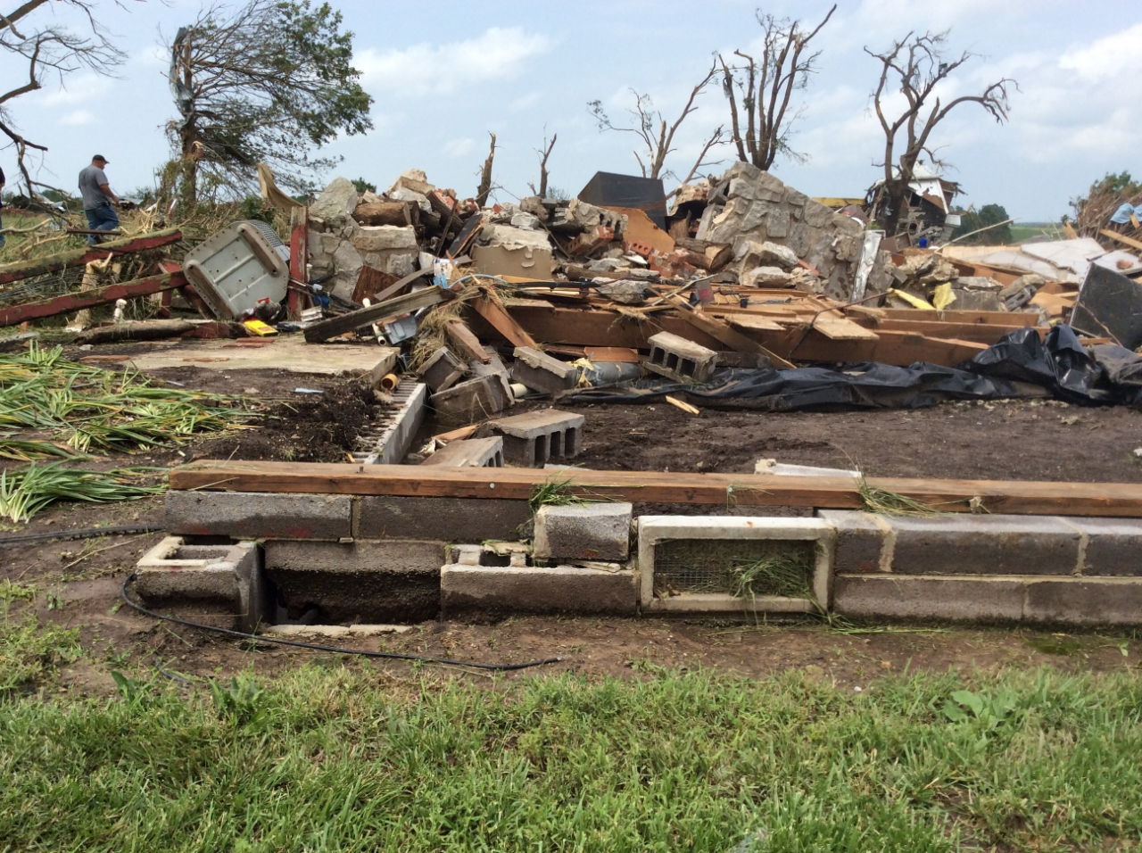 EF3 damage to a block-foundation farmhouse near Golden City, Missouri. Two of the three fatalities from this tornado occurred at this location.